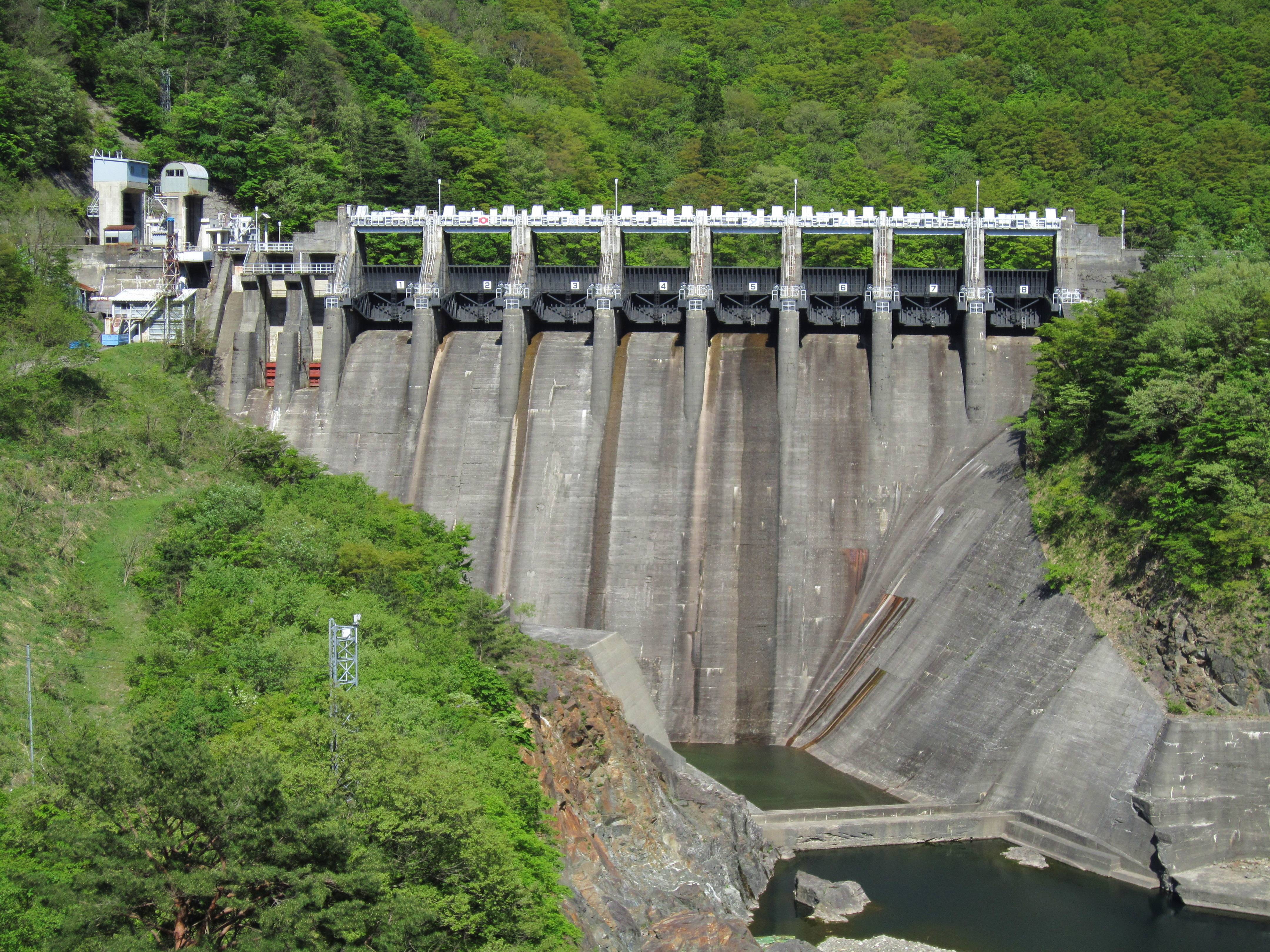 Narude Dam.